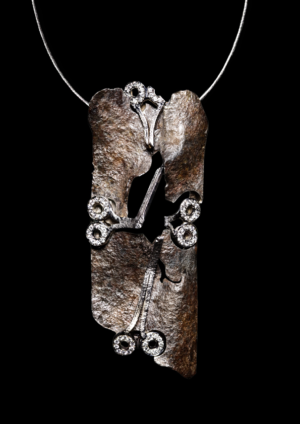 Thierry Vendome. Pendant "1915". 2015